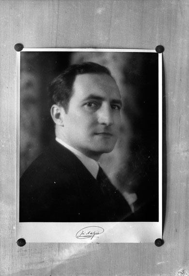 The Lehendakari Jose Antonio Agirre Lekube.